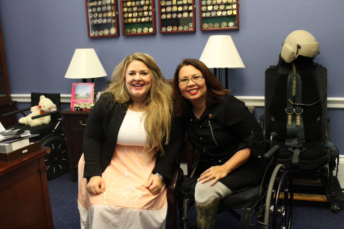 Good 2 meet w/ #GoldStar wife Jane Horton on Capitol Hill today--I’ll keep working for our #military families&widows